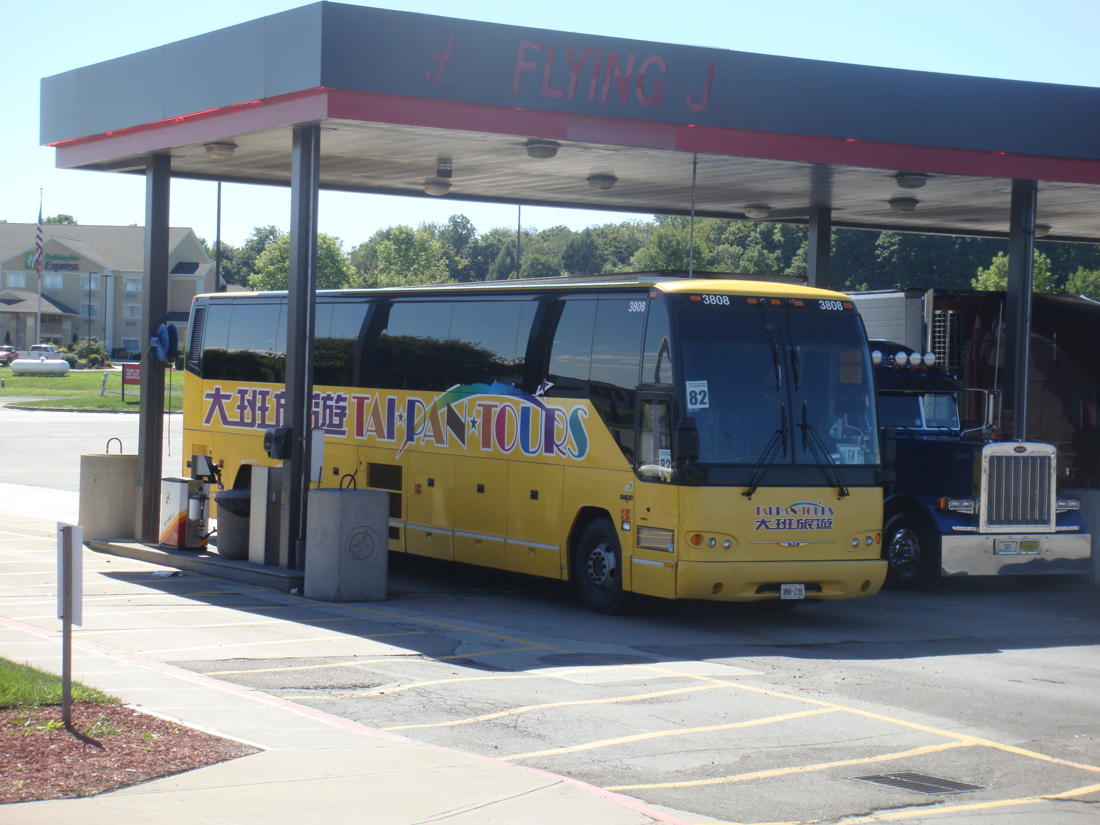 Tai Pan Tours Prevost H3-45 coach (own work)